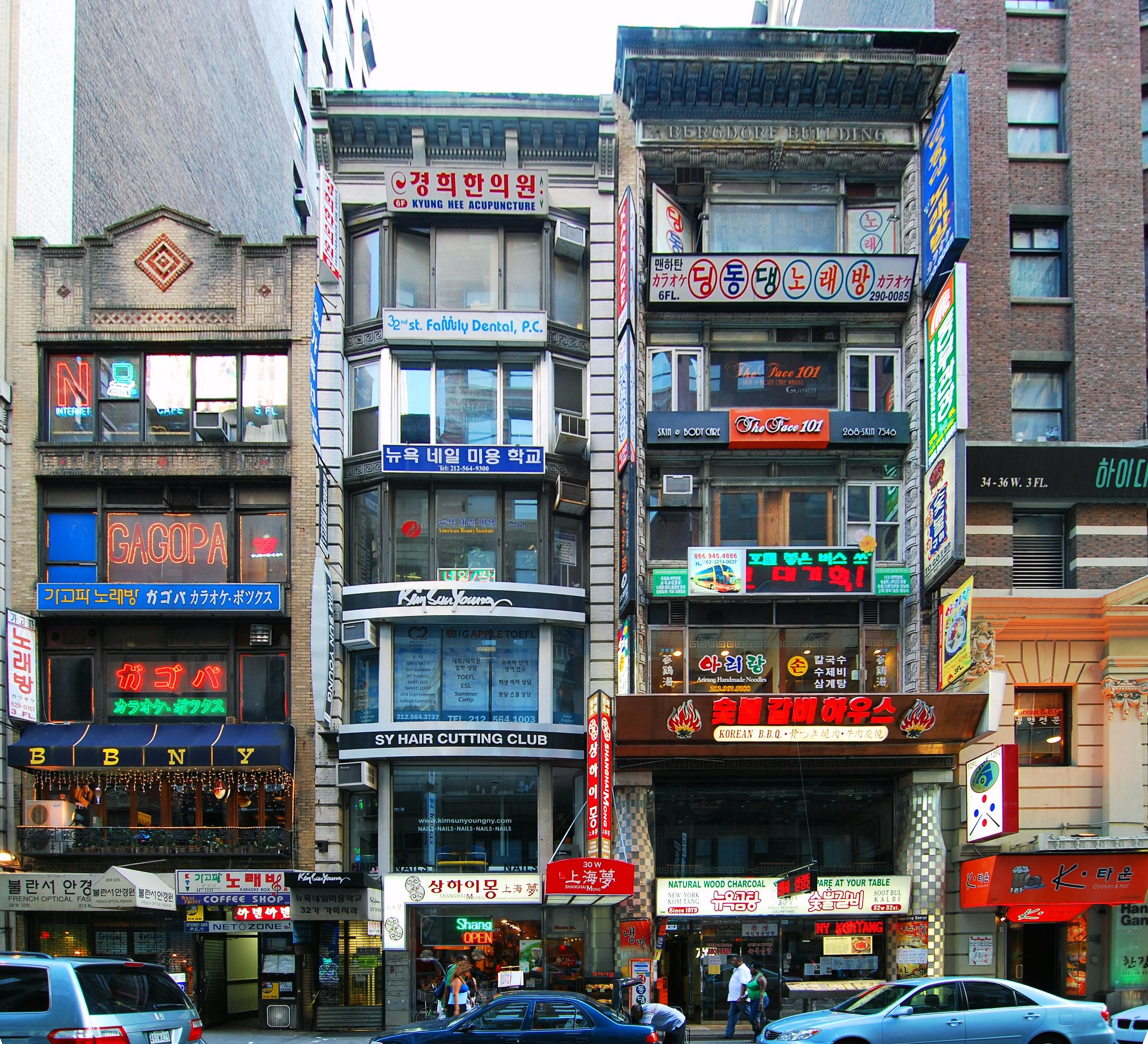 Looking south across West 32nd Street, Koreatown Manhattan 2009 New York City